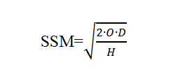 Sərfəli Sifariş Miqdarının Hesablanması